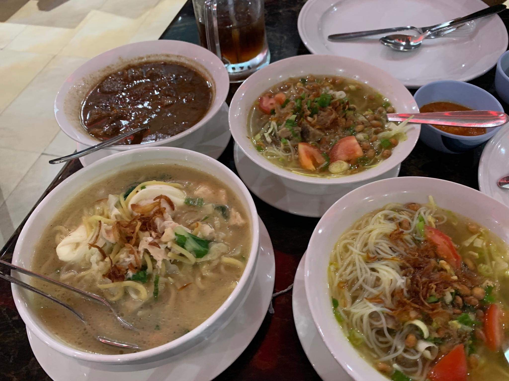 A famous Indonesian broth that consists of white noodles, eggs, meats and crackers